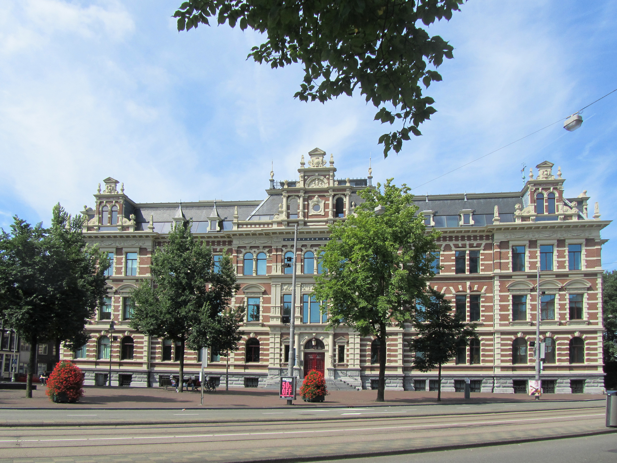 The Droogbak building in Amsterdam